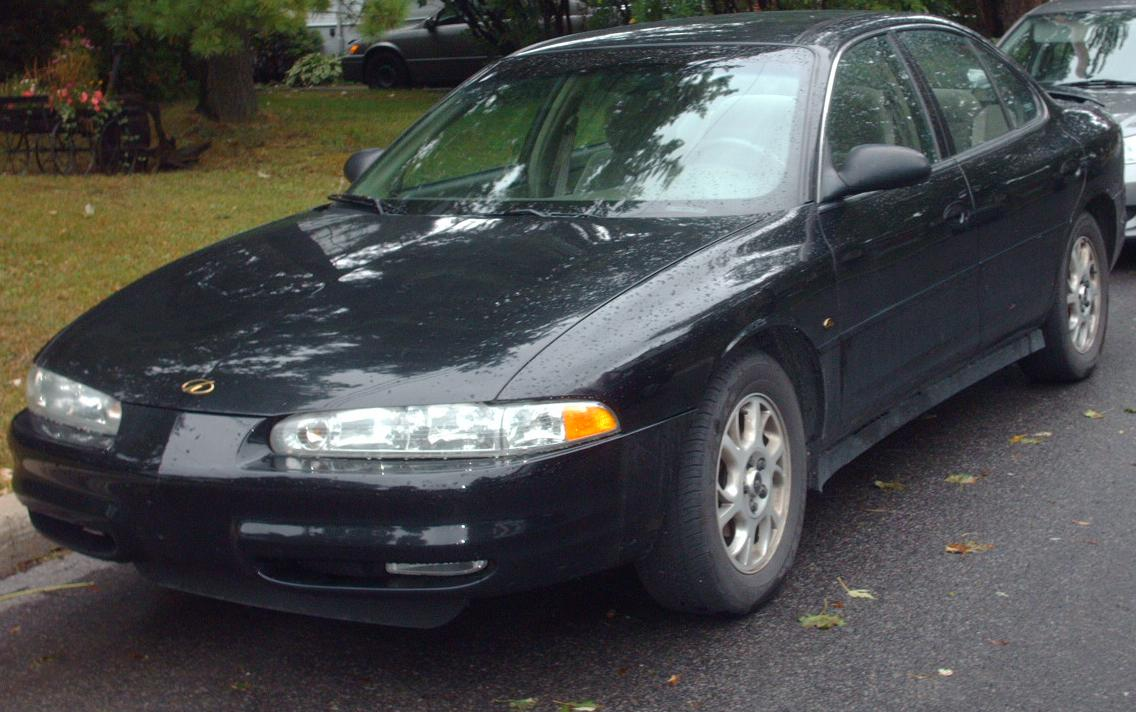 1998-2002 Oldsmobile Intrigue photographed in Montreal, Quebec, Canada.